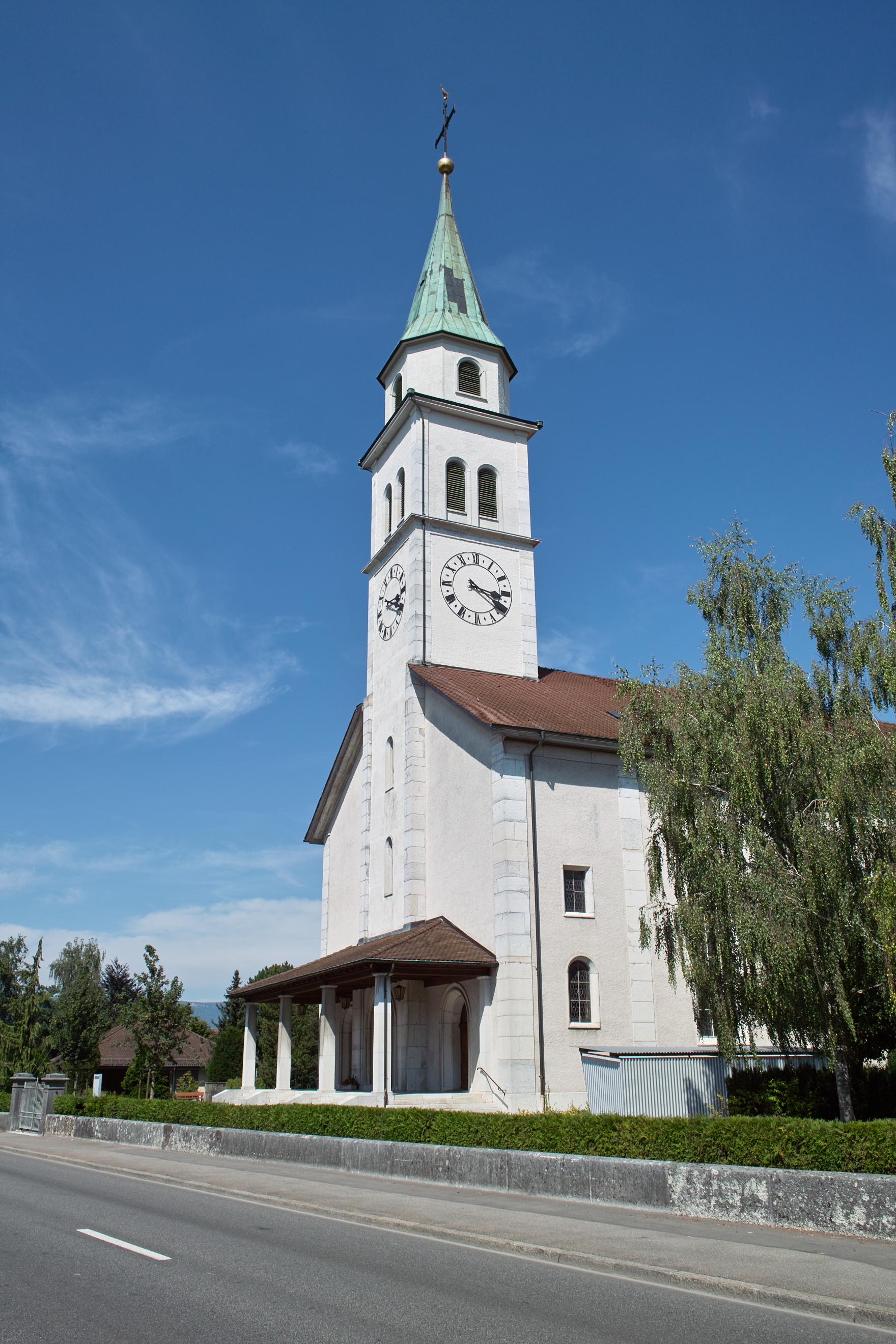 Municipality of Kriegstetten, canton of Solothurn, Switzerland. Parish church of St. Mauritius.